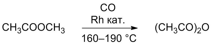 Acetic anhydride preparation via methyl acetate carbonylation